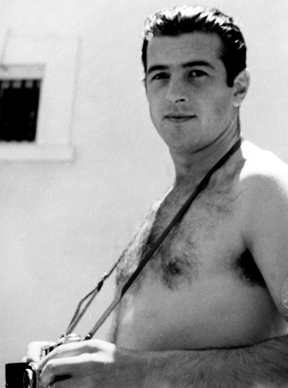 Antonio Ordonez and Ernest Hemingway, 1959. Malaga, Spain, "La Consula" (Davis Estate).